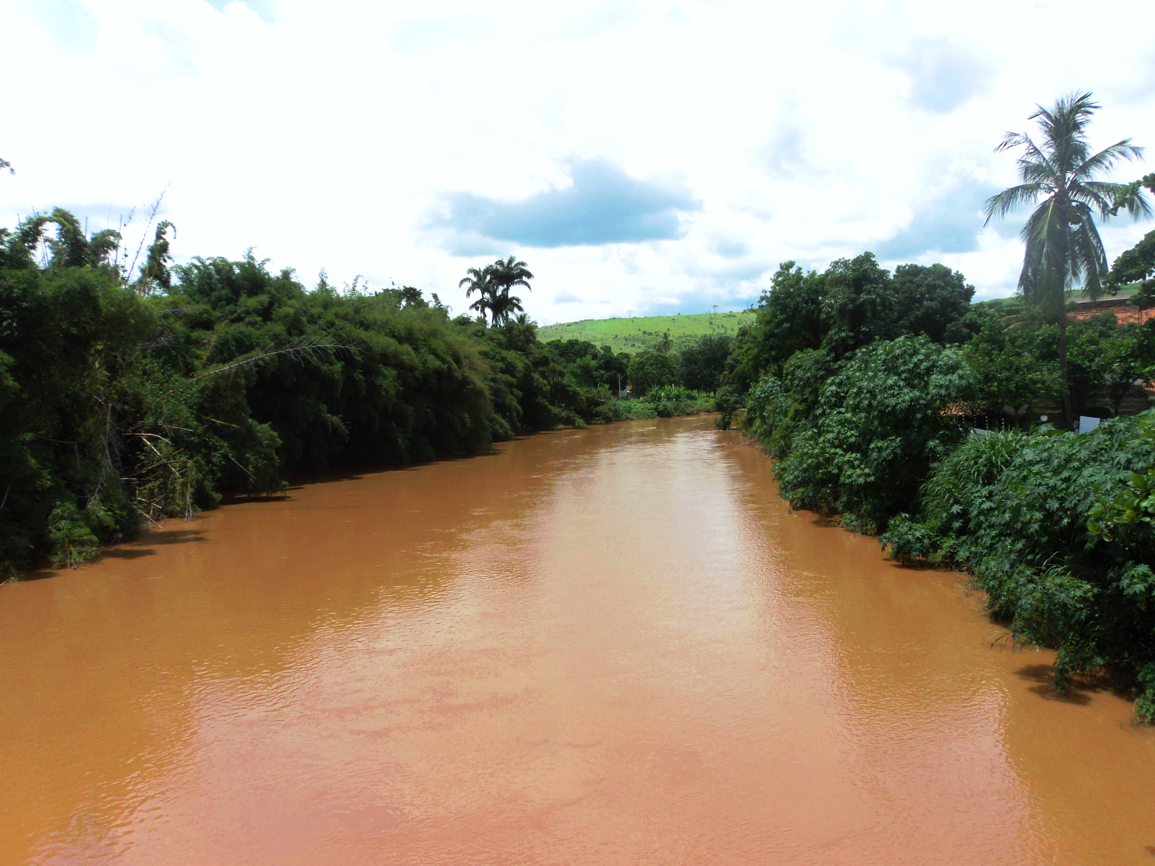 The Guandu River in Baixo Guandu, Espírito Santo, Brazil.